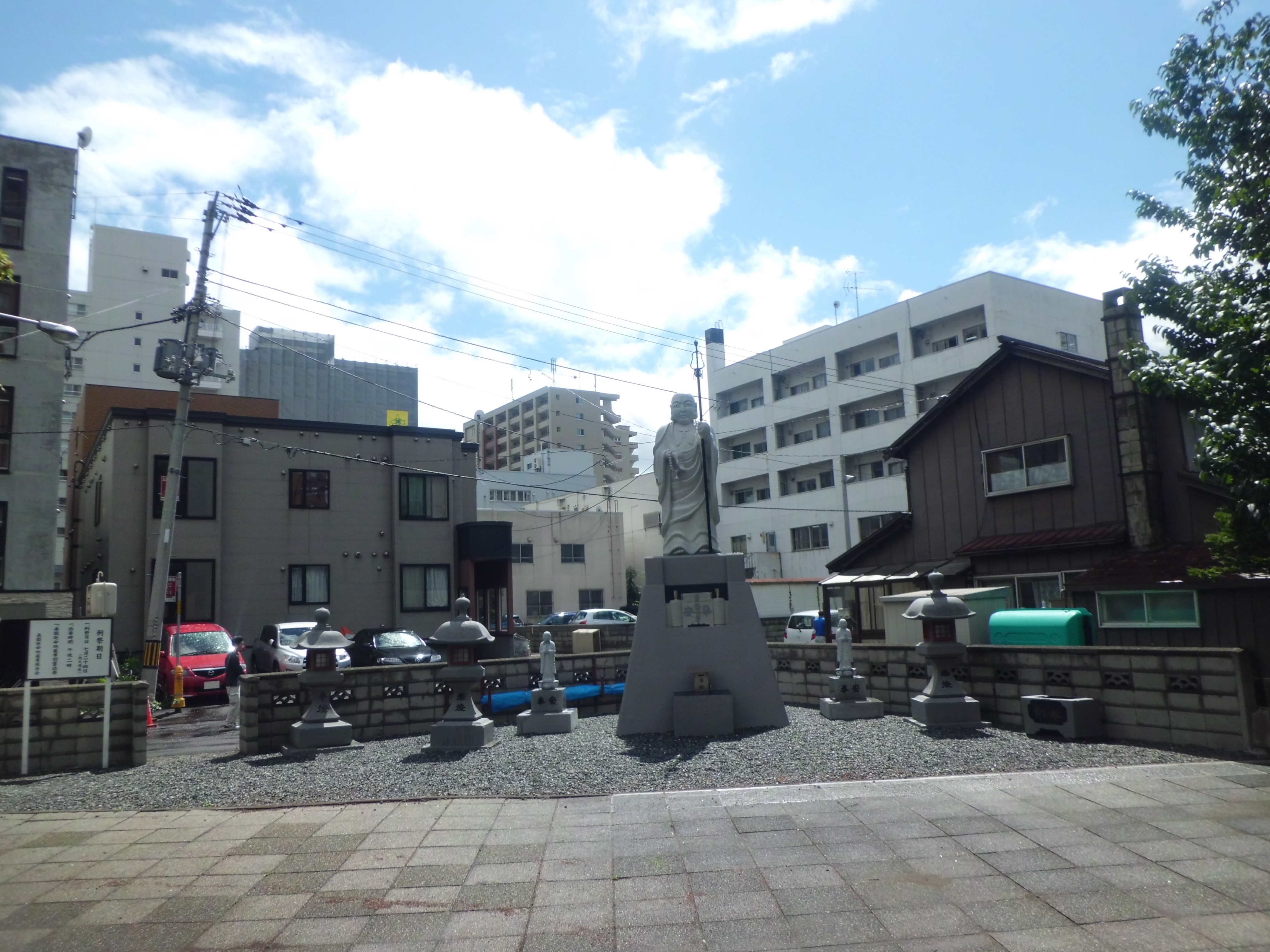 Soen Enmei Jizo